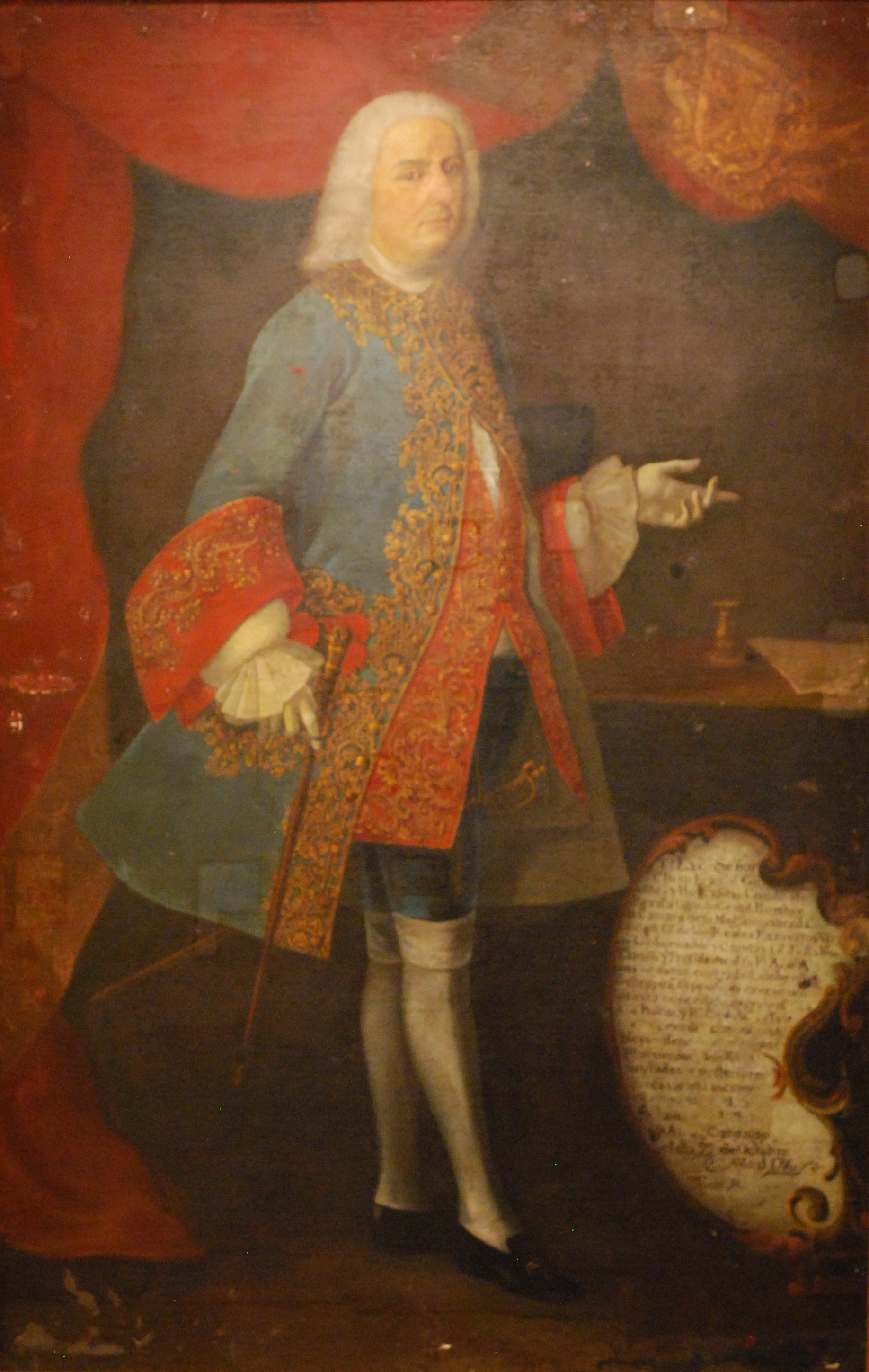 Portrait of Juan Francisco de Güemes, 1st Count of Revillagigedo (1681-1766)